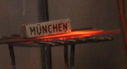 Mujodogane Text "München"